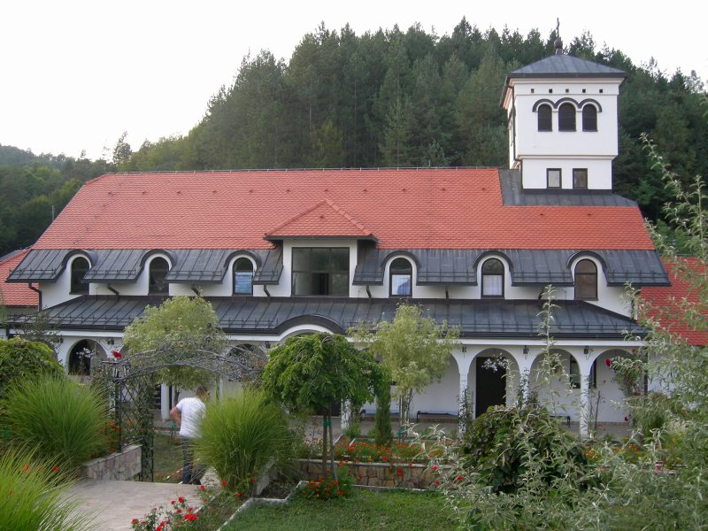 Monastery Ozren near Petrovo.